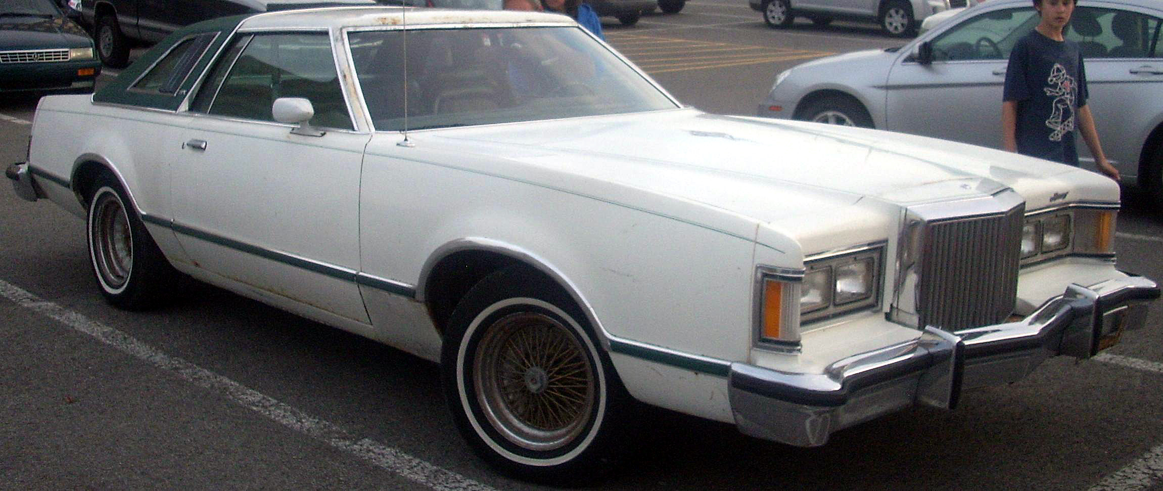 Mercury Cougar photographed in Laval, Quebec, Canada at Les chauds vendredis 2010.